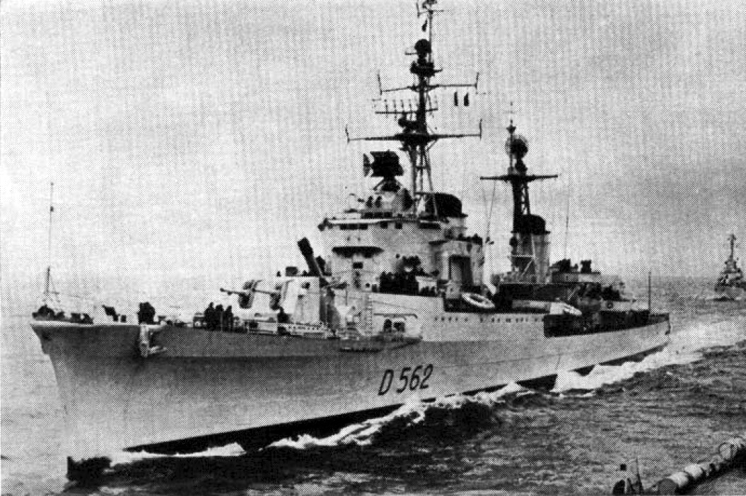 The Italian destroyer San Marco (D562), circa in 1959. San Marco was originally commissioned as the Capitani Romani-class light cruiser Giulio Germanico during the Second World War. She was extensively rebuilt in 1951-55 and fitted with American weapons and radar. Note the already outdated Mk 12/22 radar on the Mk 37 gun director.